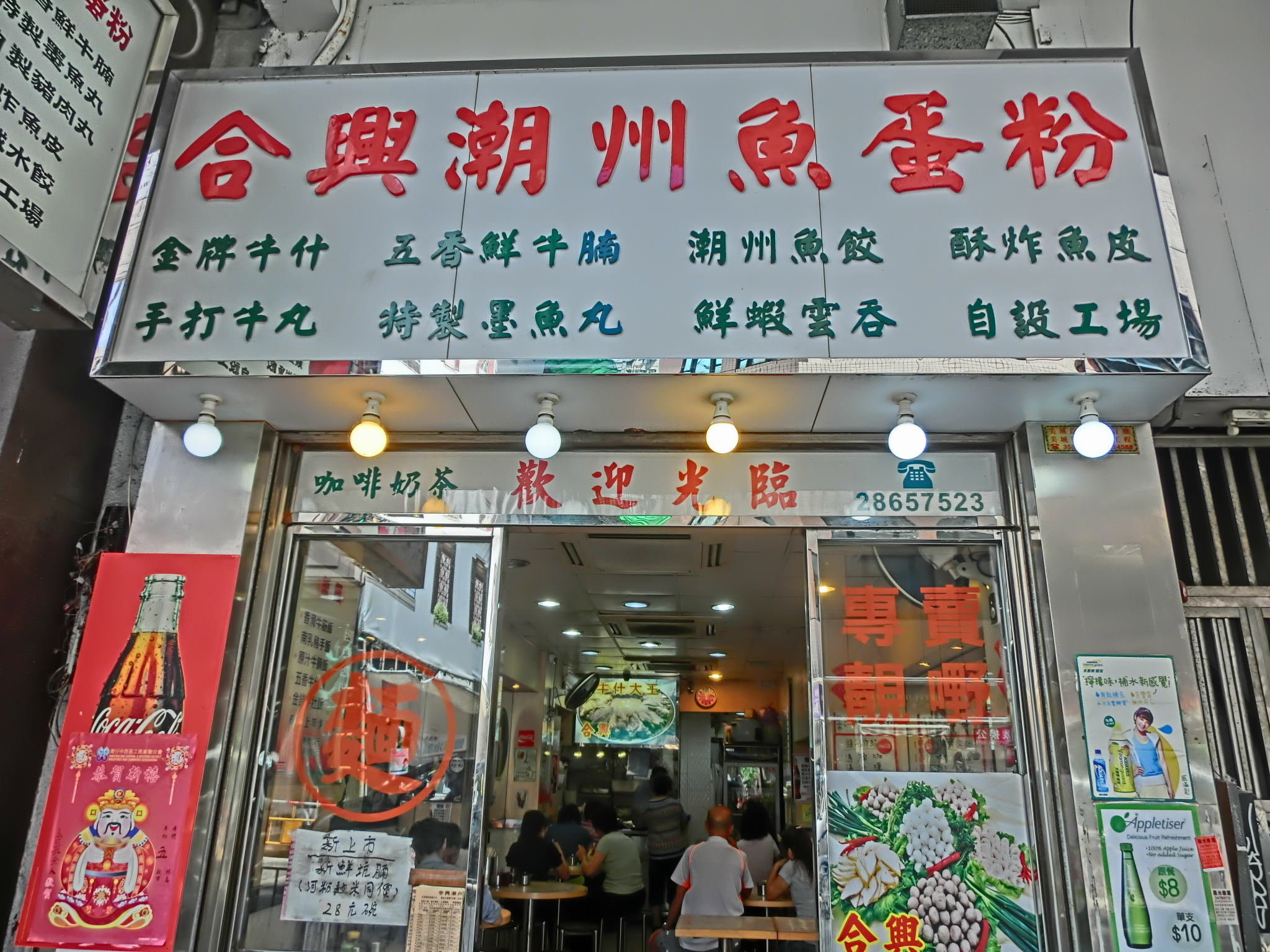 灣仔 皇后大道東, Queen's Road East, Wan Chai, Hong Kong